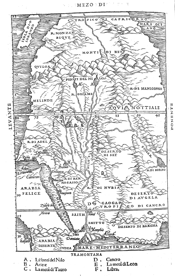 Map of Africa in G.B. Ramusio's Delle Navigationi et Viaggi, volume 1